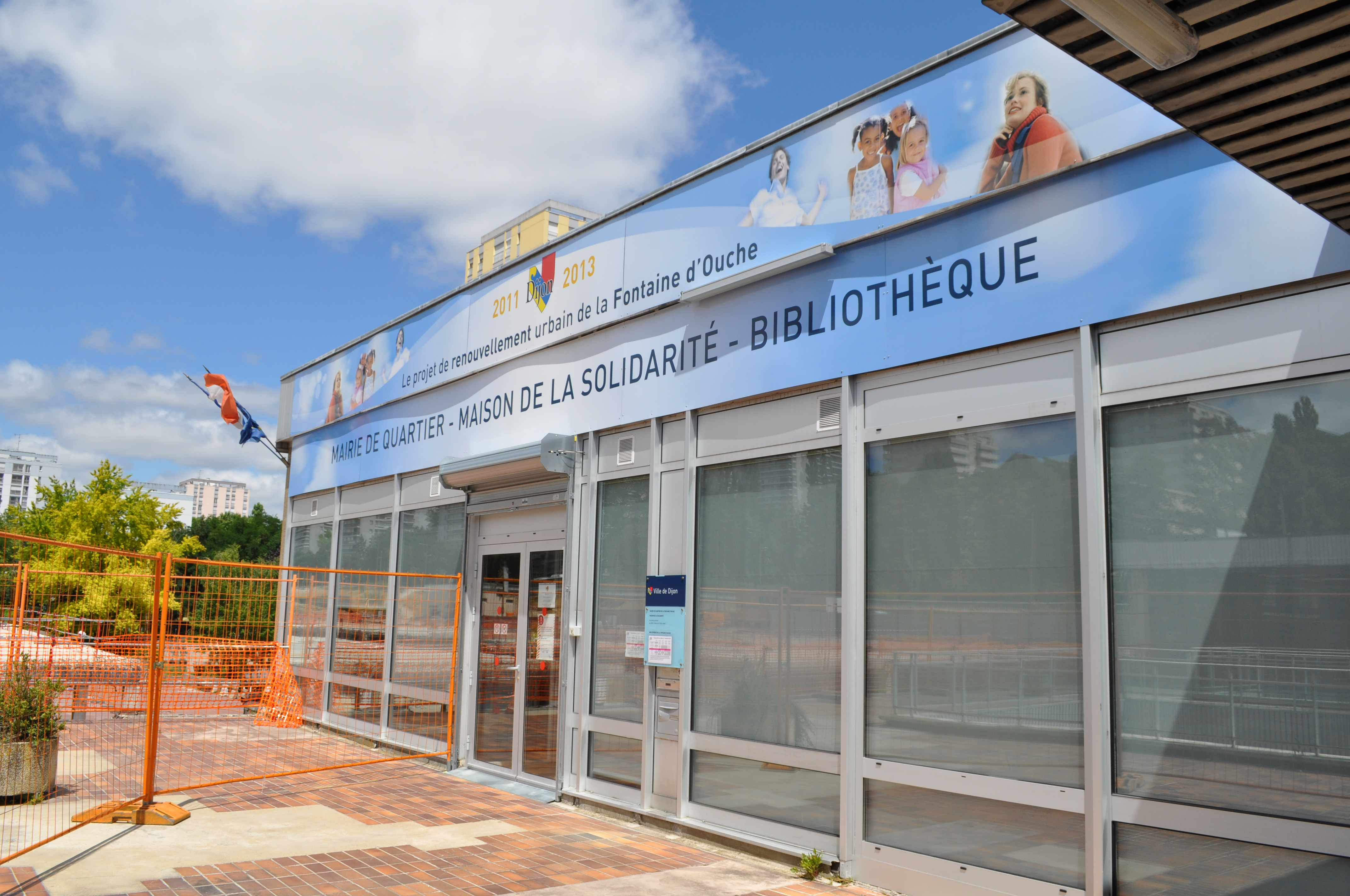 Municipal library Fontaine d'Ouche in Dijon (Côte-d'Or).